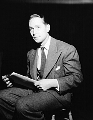 Franchot Tone, American actor. Original caption: Franchot Tone perches on high stool, watches the control booth for cue during presentation of War Production Board (WPB) radio show Three Thirds of the Nation.